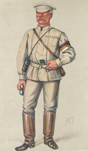 Chromolithographic caricature of the journalist Archibald Forbes. Caption read "Thorough".